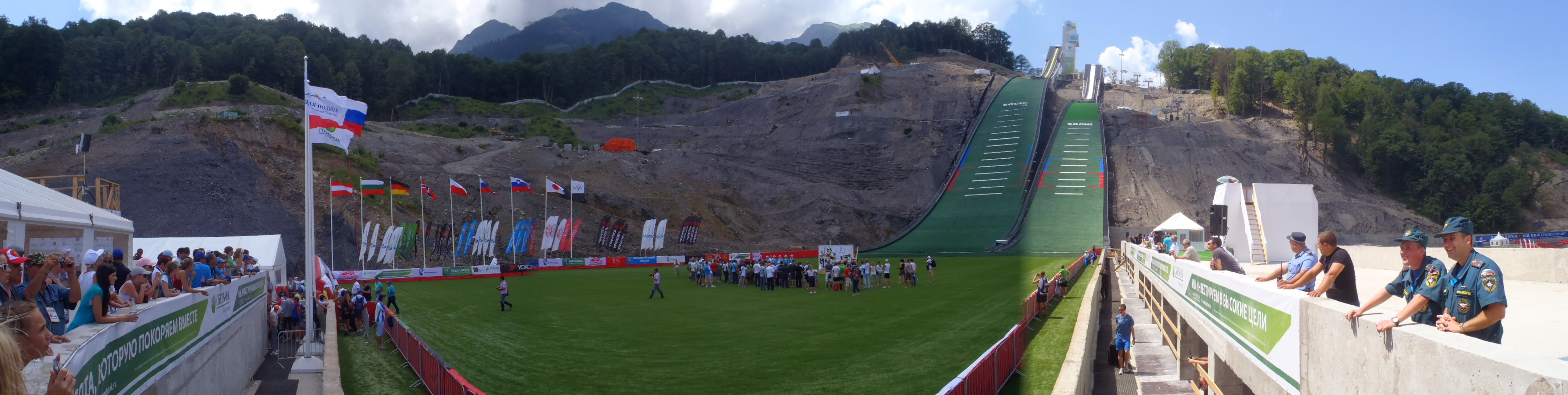 2012 FIS Continental Cup Ski Jumping. Panorama